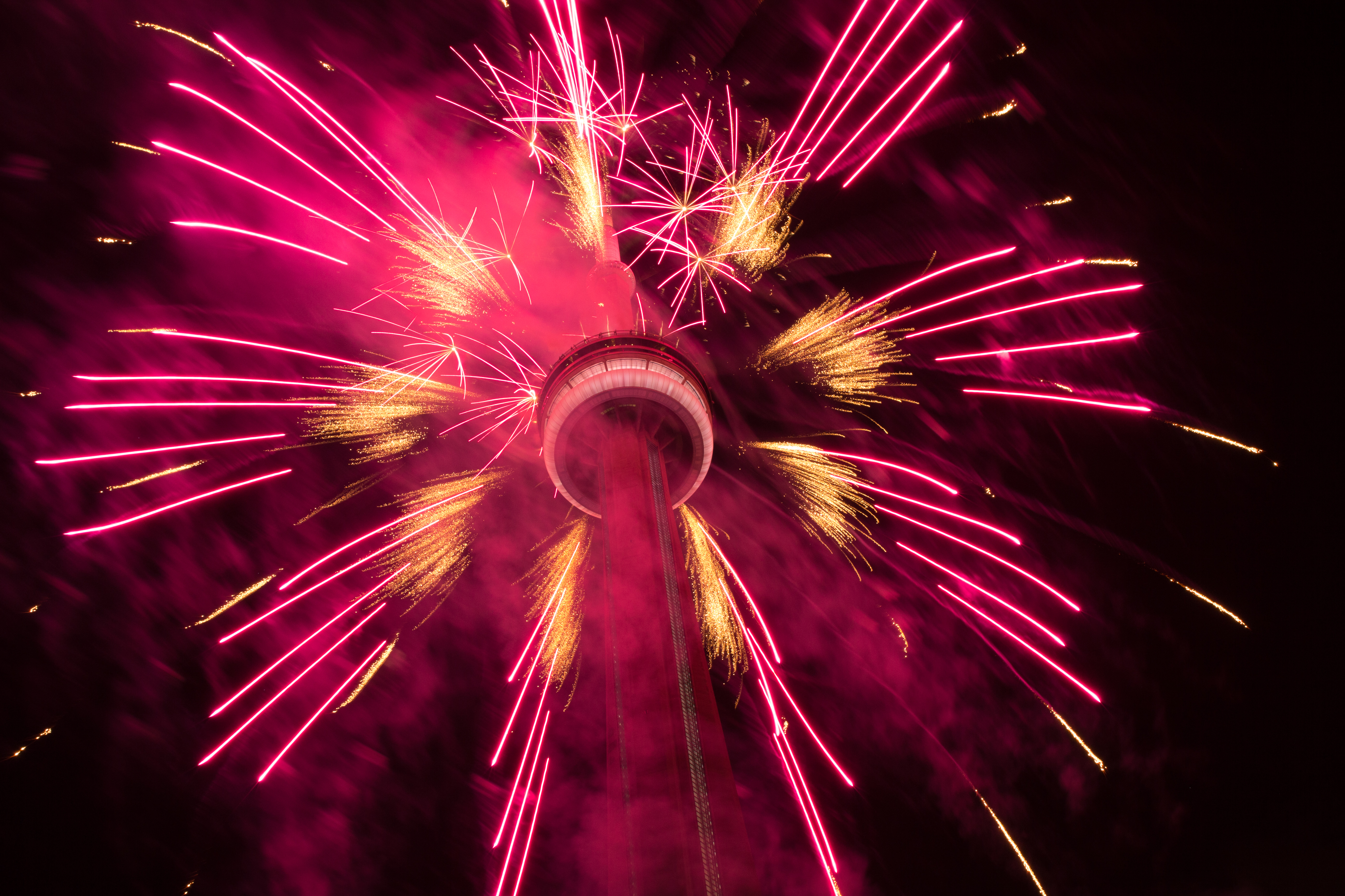 .fireworks for the PAN AM opening ceremonies